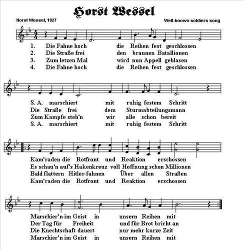 Horst Wessel Song, a.k.a. "Horst Wessel Lied", a.k.a. "Die Fahne hoch", the anthem of the Nazi Party from 1930 to 1945, written in 1927 by Horst Wessel (1907–1930).